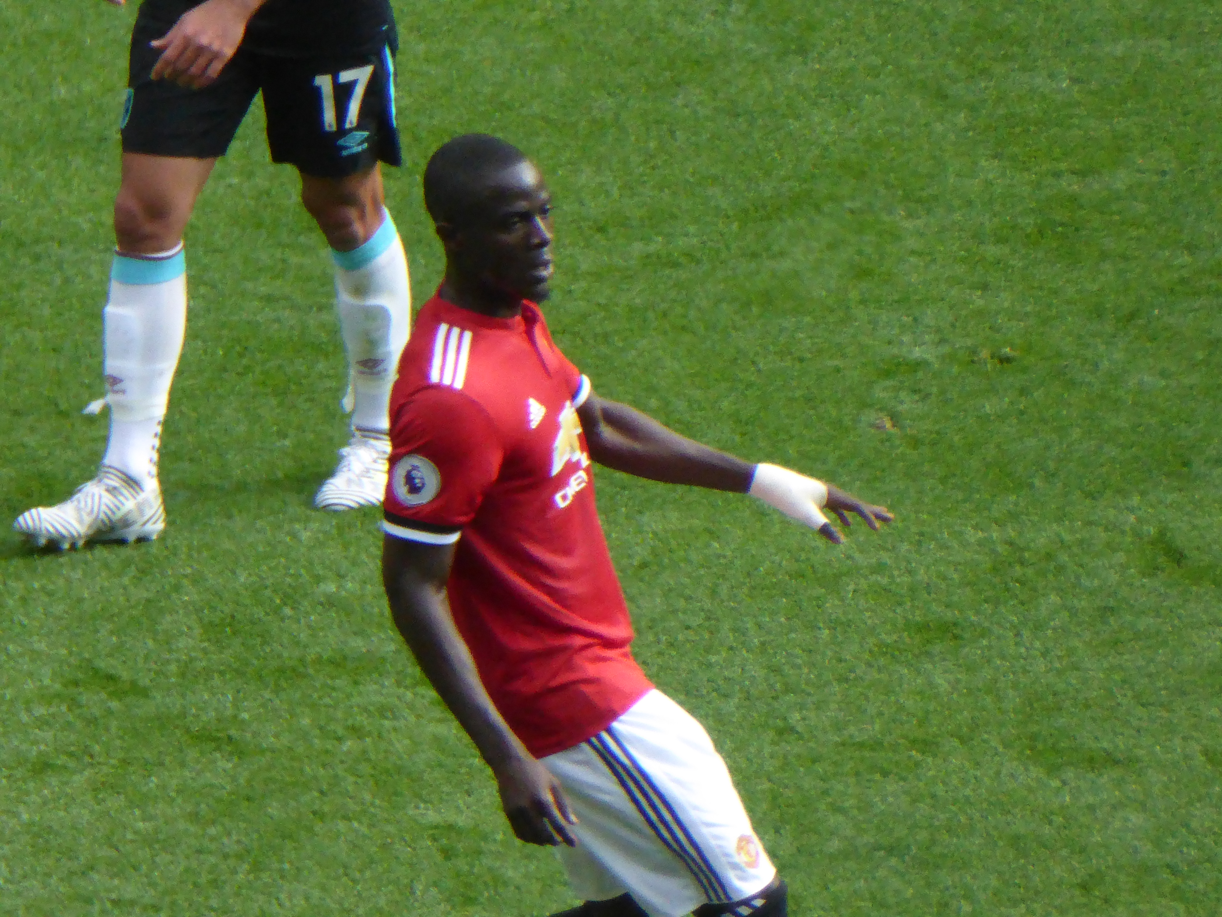 Manchester United v West Ham United (4-0), Premier League, Old Trafford, Manchester, Greater Manchester, England, 13 August 2017